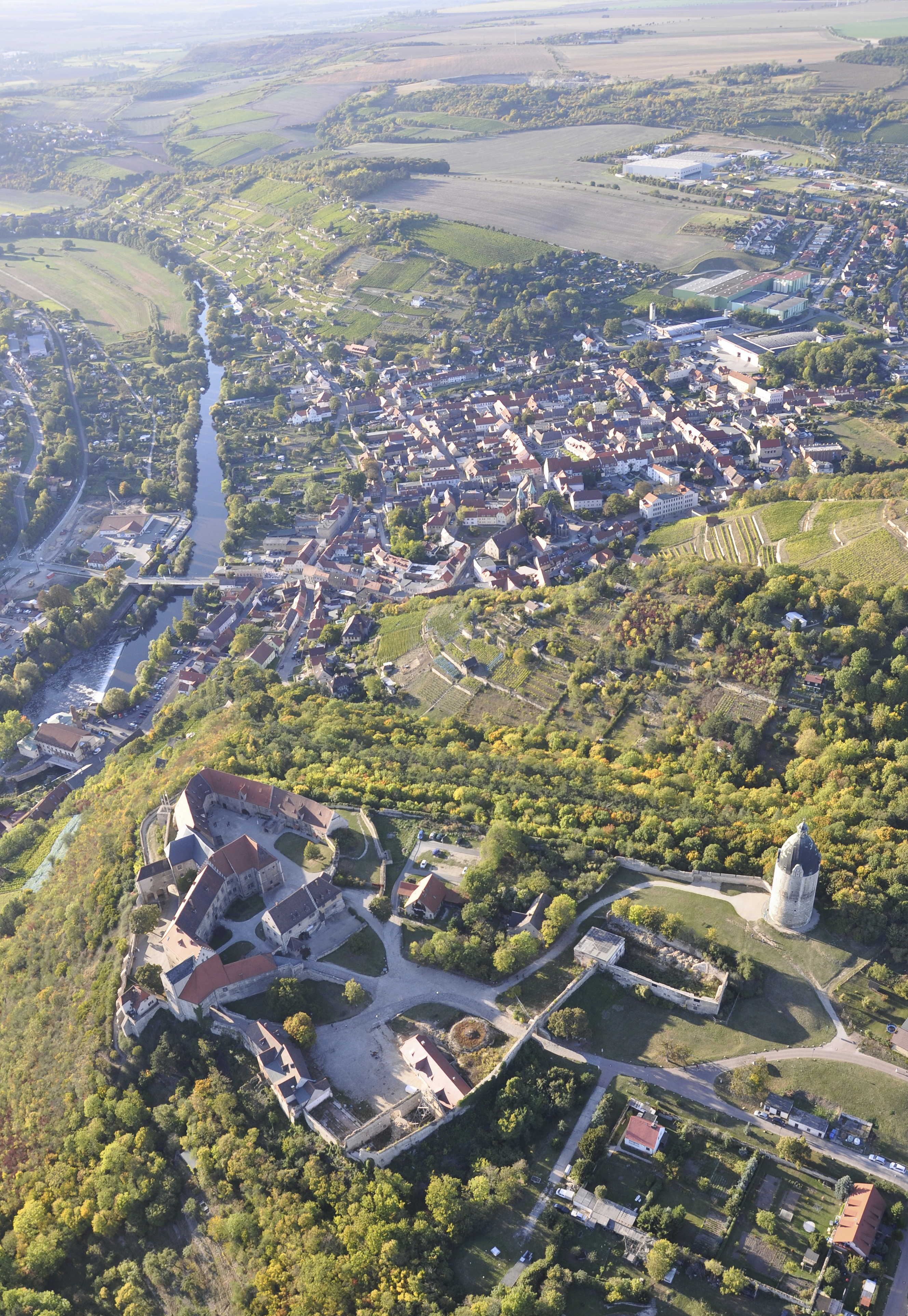 Neuenburg castle and town